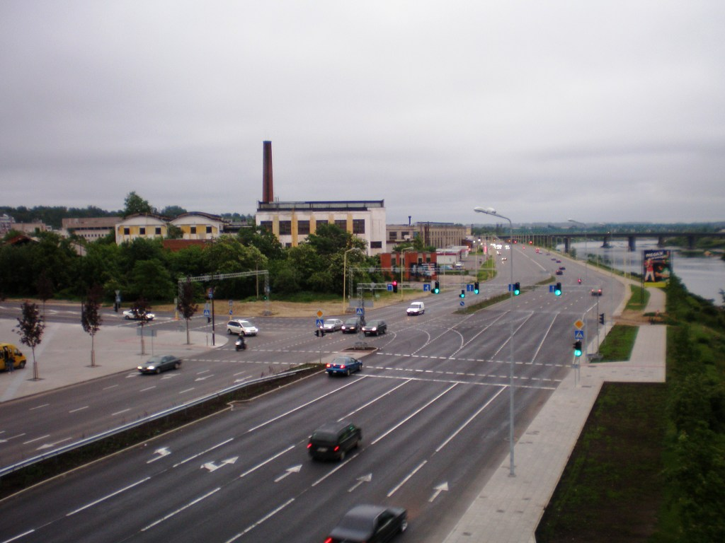 Karaliaus Mindaugo prospektas (street in Kaunas, Lithuania).